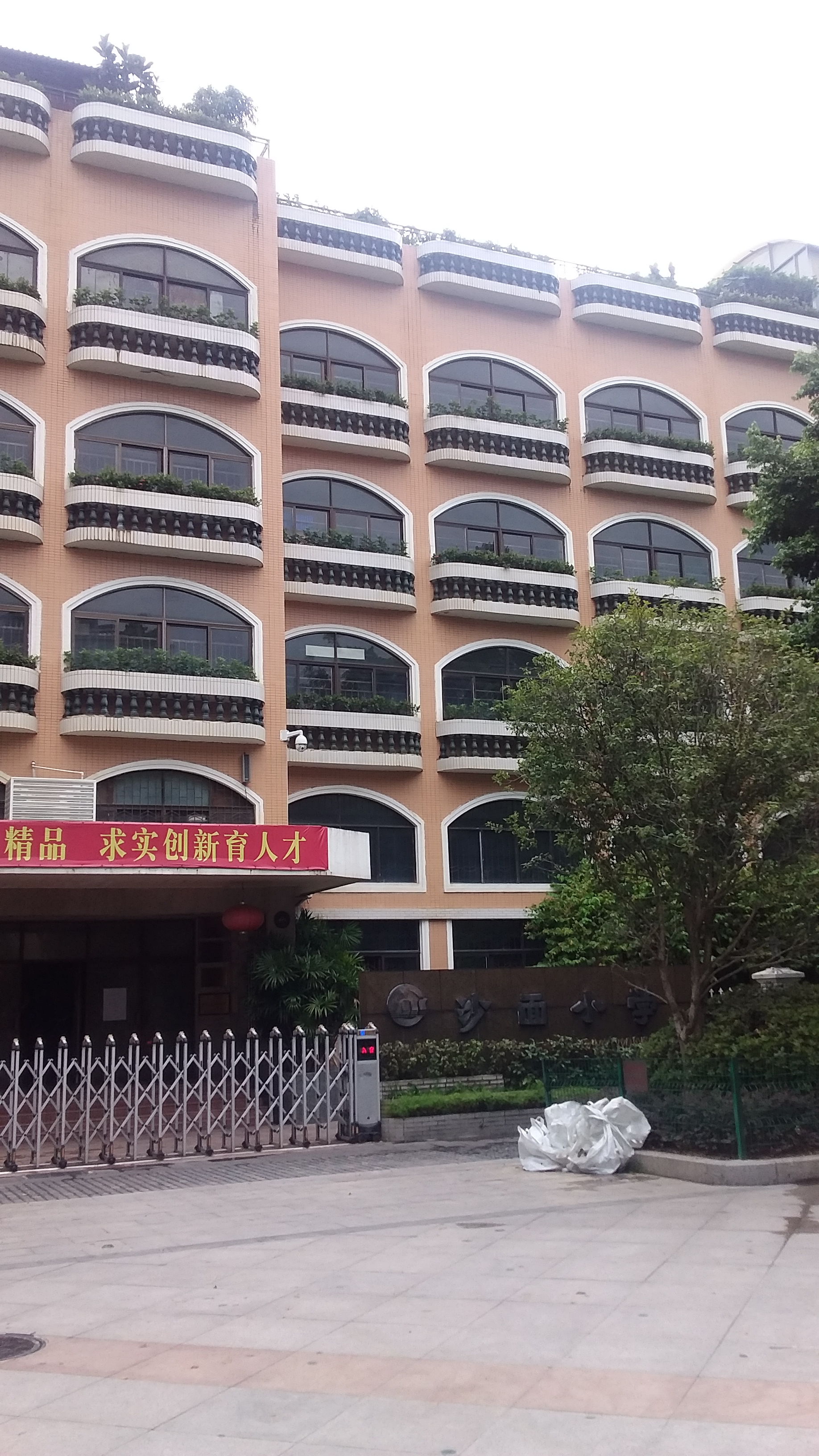 Shamian School